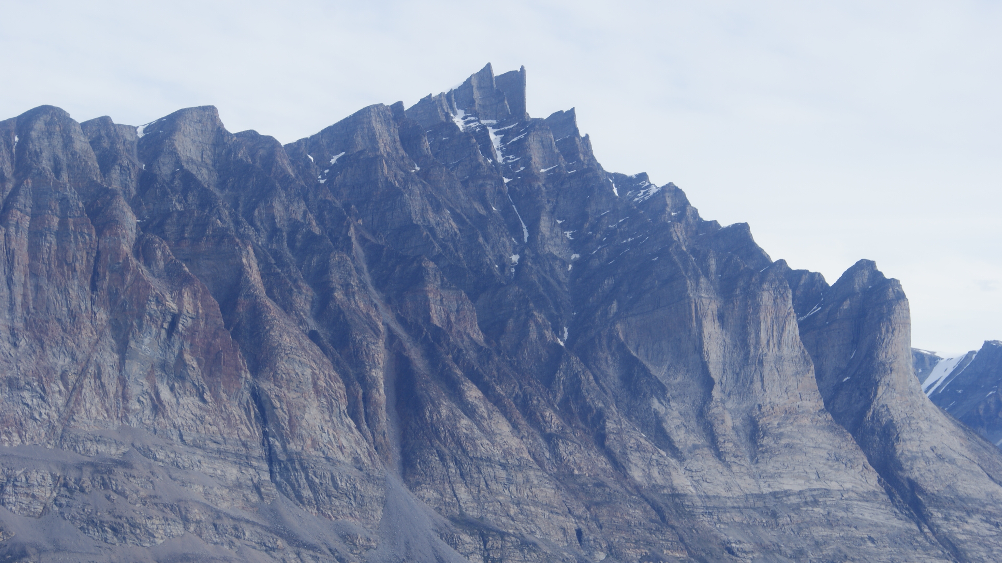 Aerial view of Appat Island, Greenland. Photographed from the south, from the Air Greenland Bell 212 helicopter during Uummannaq-Ukkusissat flight. Detail: the southern wall and the summit of Salliarusiarsuup Qaqarsua (1516m), the fourth-highest summit on Appat Island.